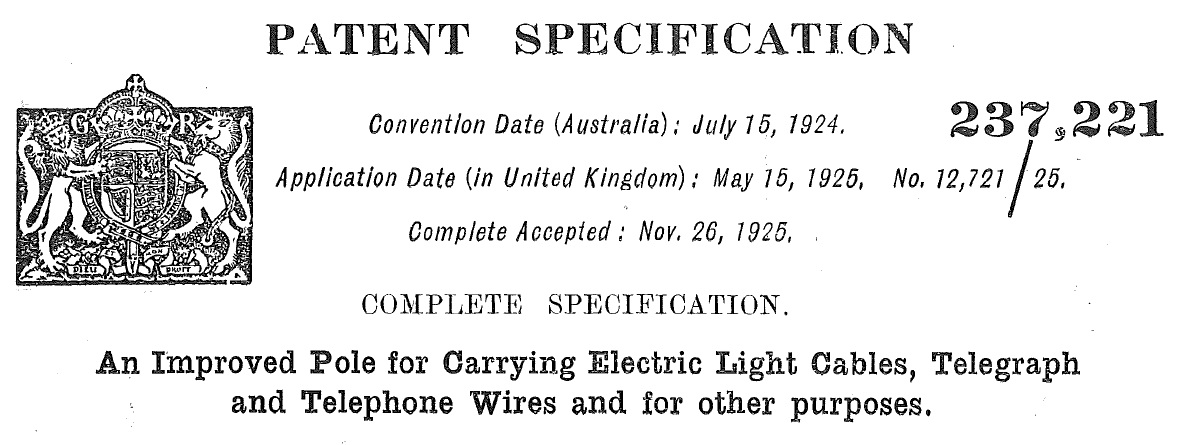 Heading text of the original 1924 patent specification for the Stobie Pole still used by ETSA Utilities today. The patent was submitted by James Stobie and Frederick Wheadon in both English and French through H Gardener & Son, Chartered Patent Agents, London.